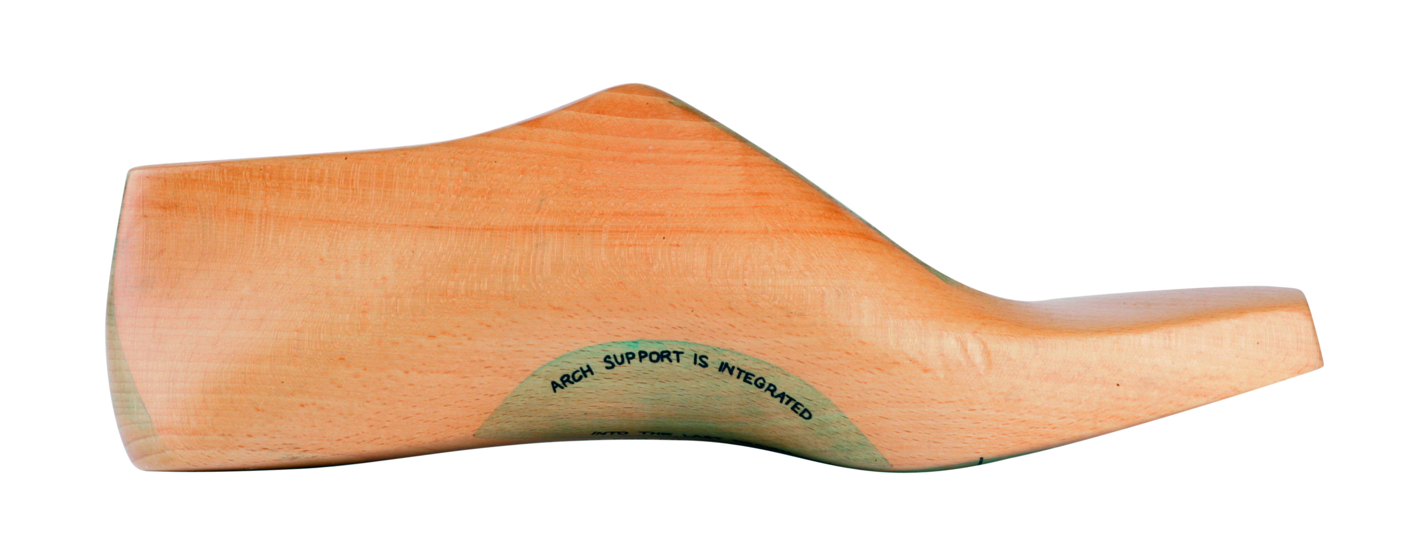 Side